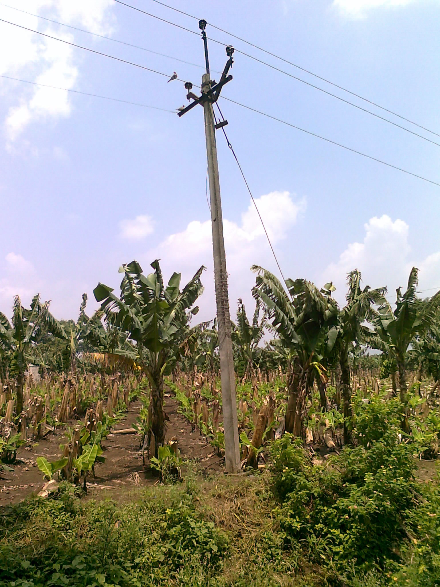 Banana farm on Rozoda road at Chinawal village, Maharashtra, India